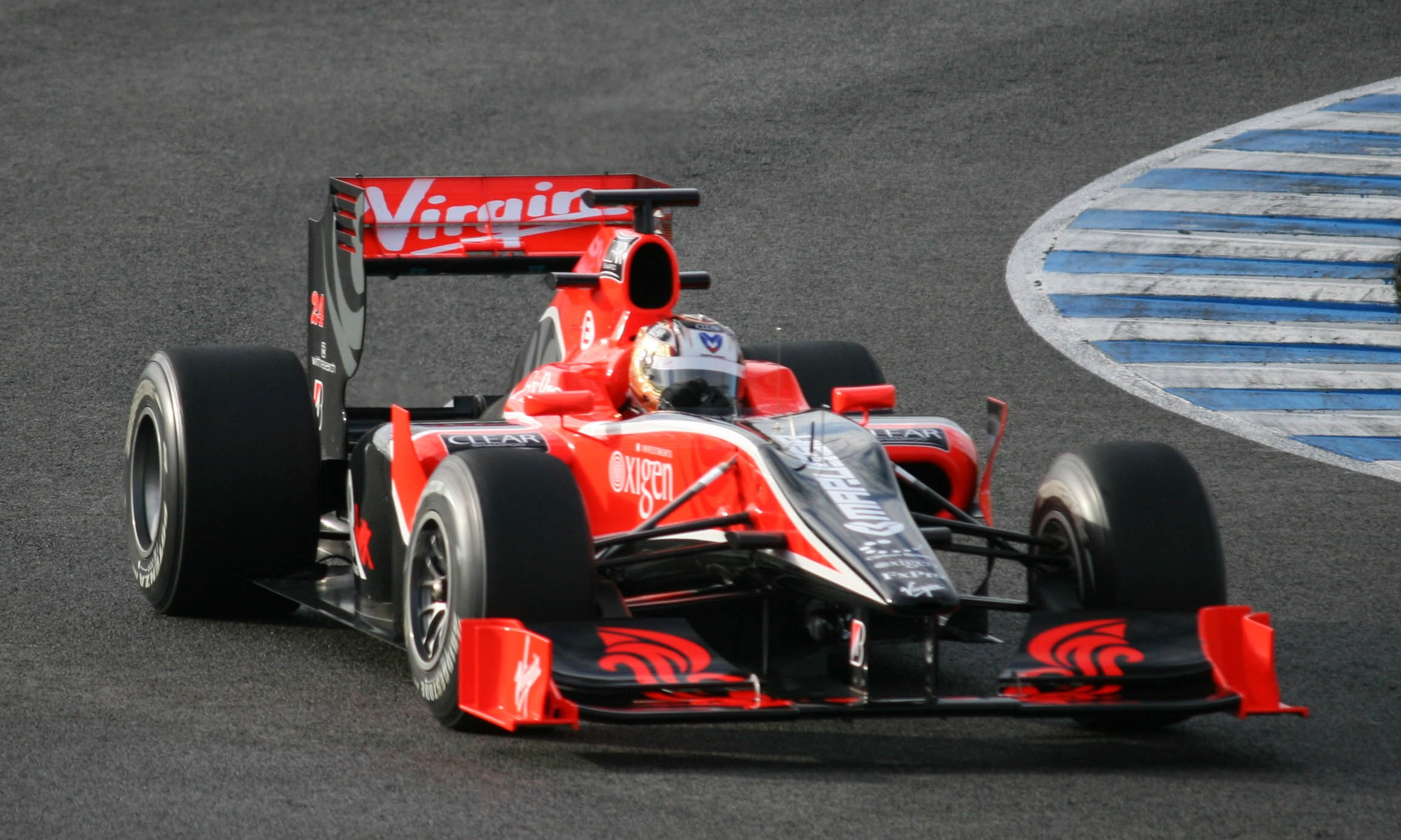 Cropped